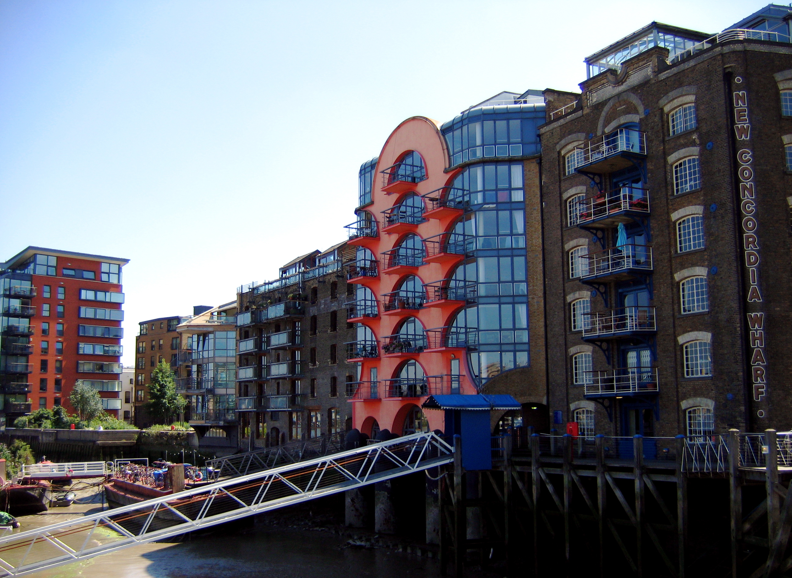 New Concordia Wharf and China Wharf, Shad Thames